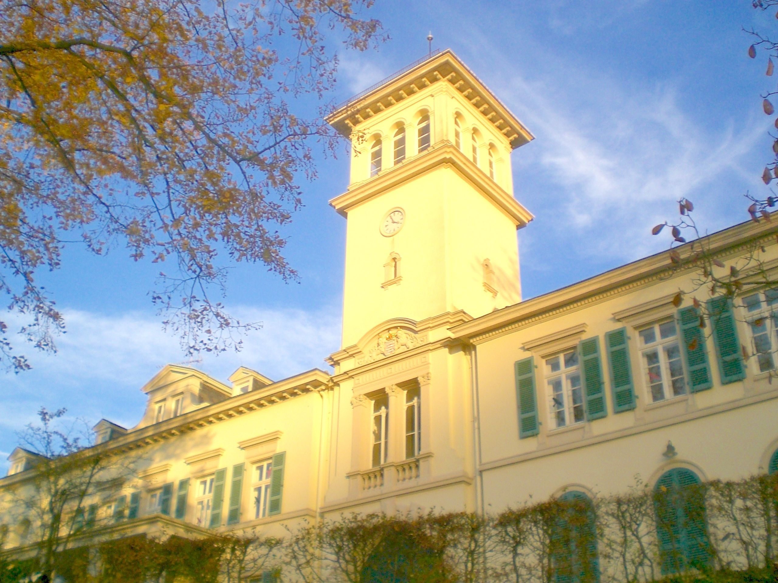 The castle Heiligenberg in Seeheim-Jugenheim, Germany